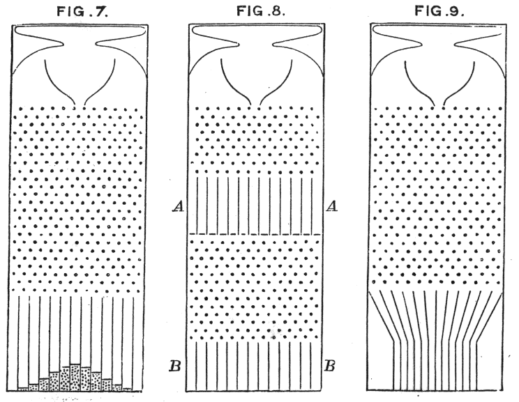 Galton box